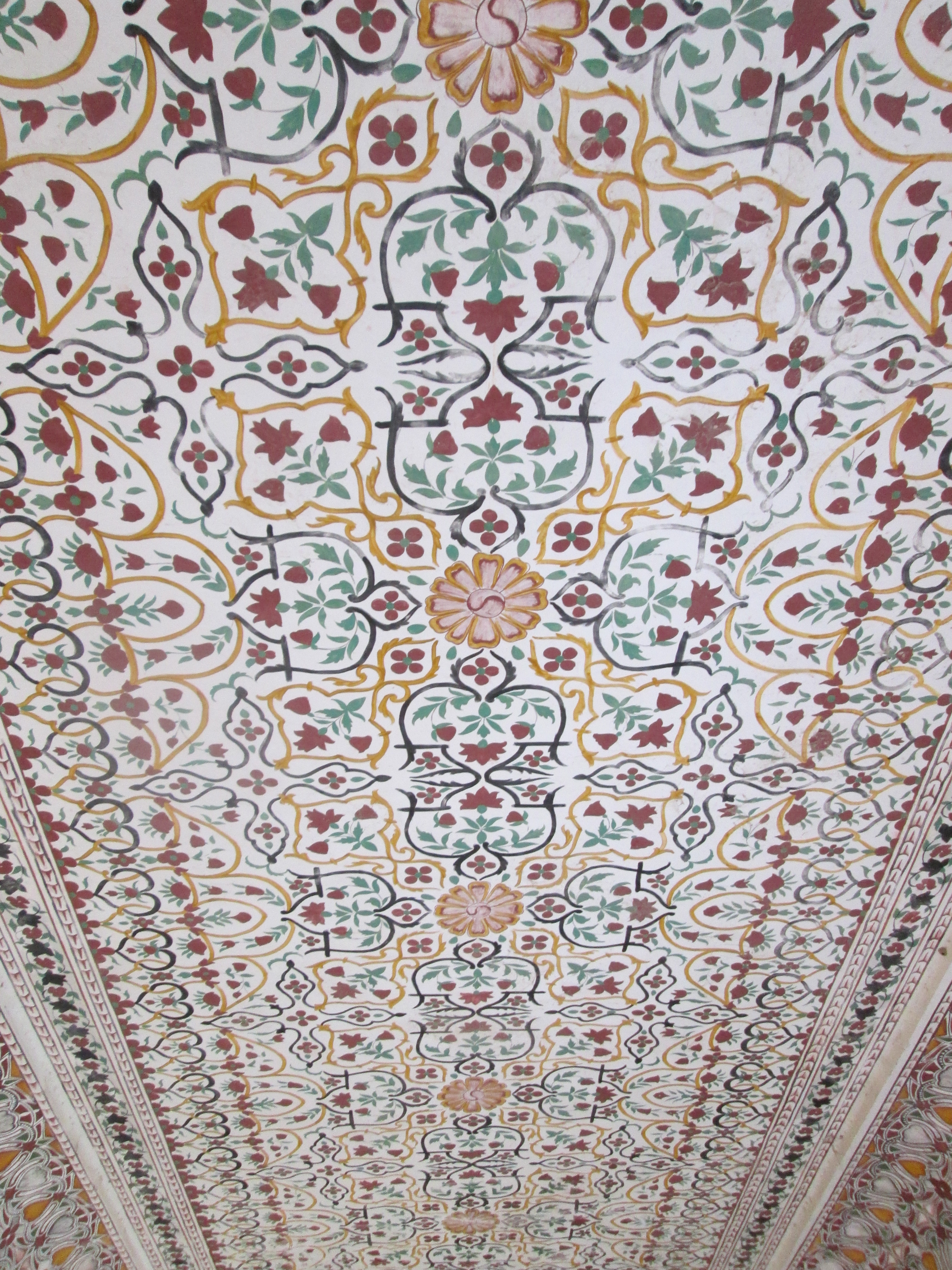 Roof Art in Rama Chandra Temple in Katas Raj Temple This is a photo of a monument in Pakistan identified as the PB-36